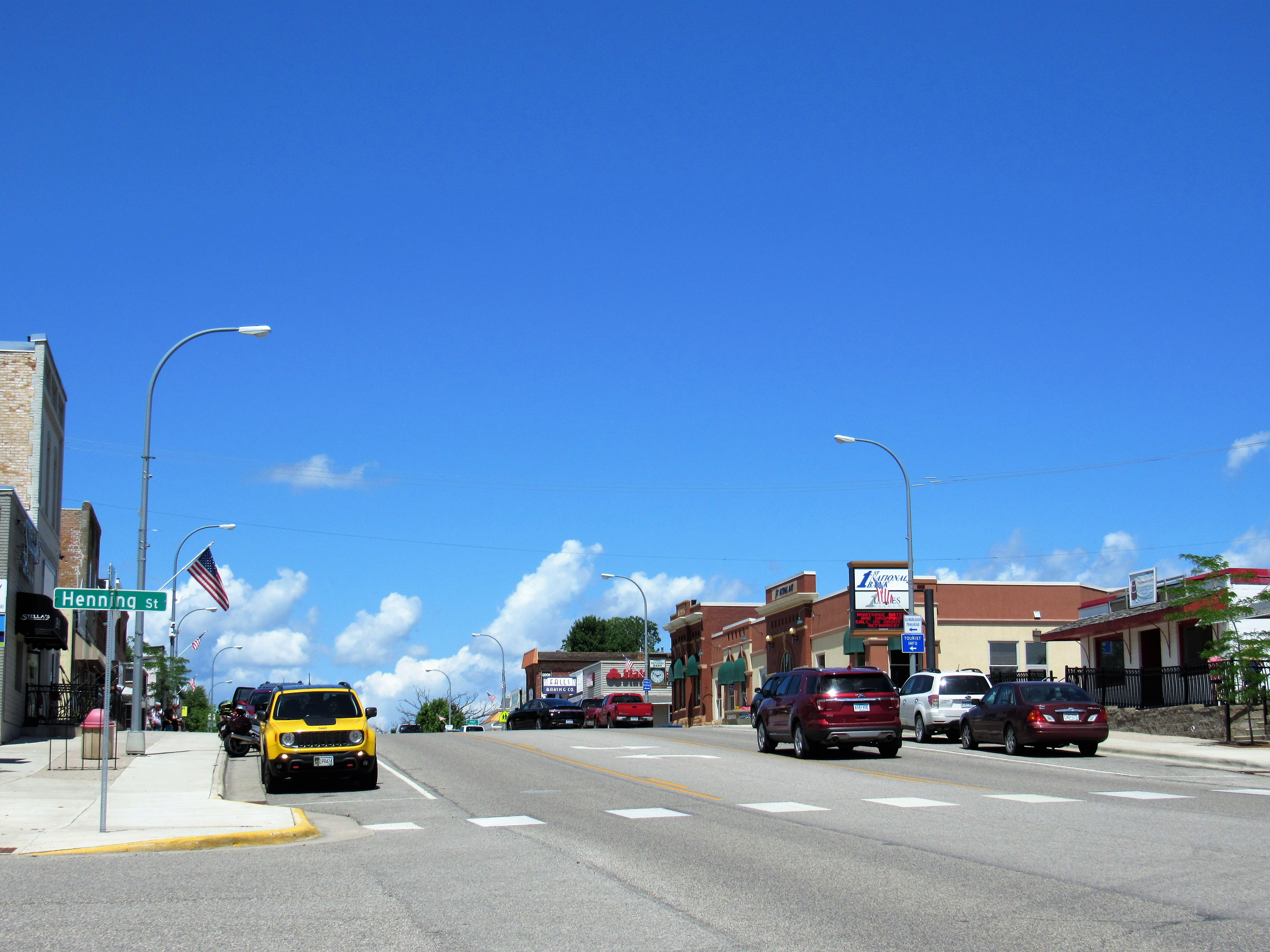 Battle Lake, Minnesota